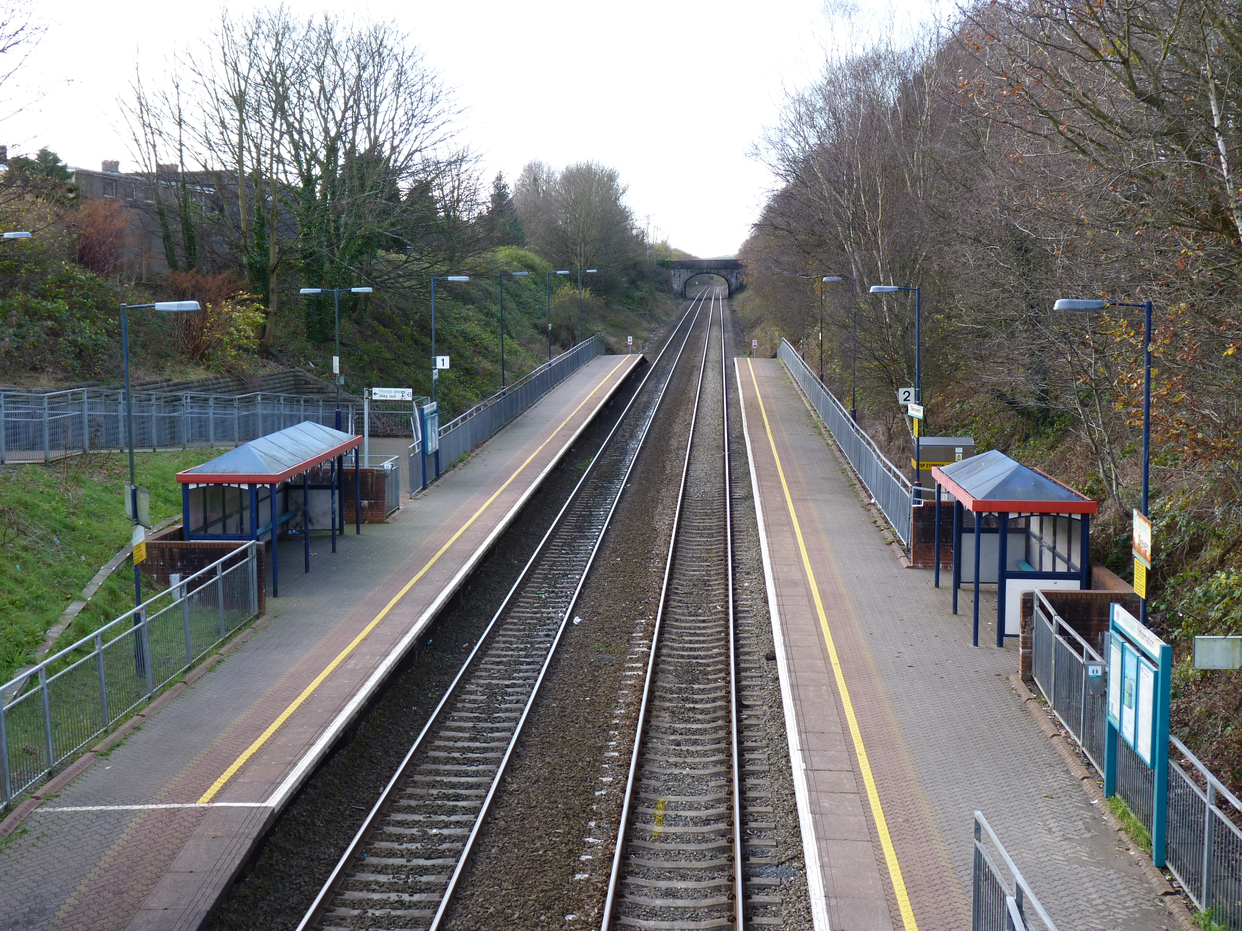 Skewen railway station